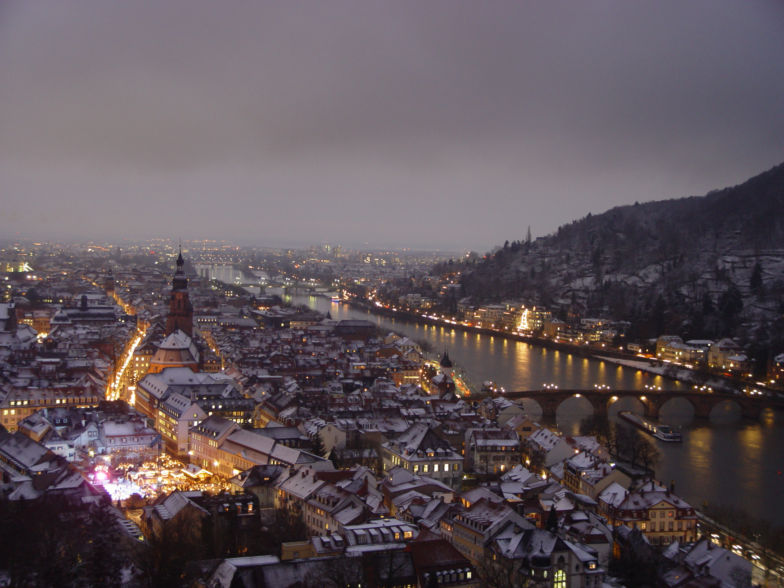 View of Heidelberg's old city from the Schlossterrasse